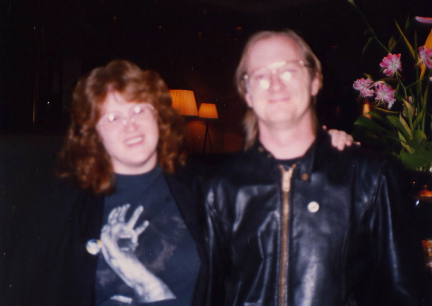 Unfortunately blurry photo of writers John Shirley (right) and Nancy A. Collins, October, 1989, at the World Fantasy Conference in Seattle